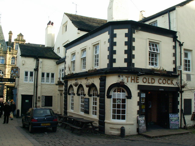 The Old Cock Inn, Old Cock Yard, Halifax One of the oldest surviving pubs in Halifax.